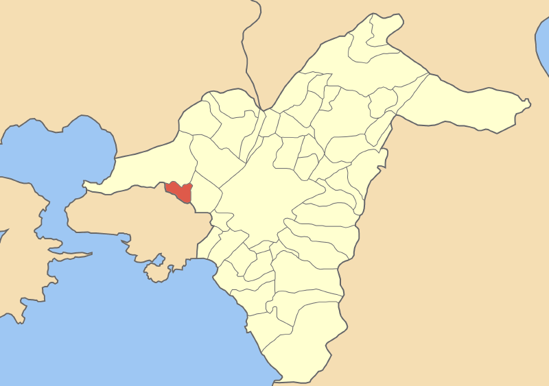 Locator map of Agia Varvara municipality (Δήμος Αγίας Βαρβάρας) in Athina Nomarchia (Νομαρχία Αθηνών) in Greece.